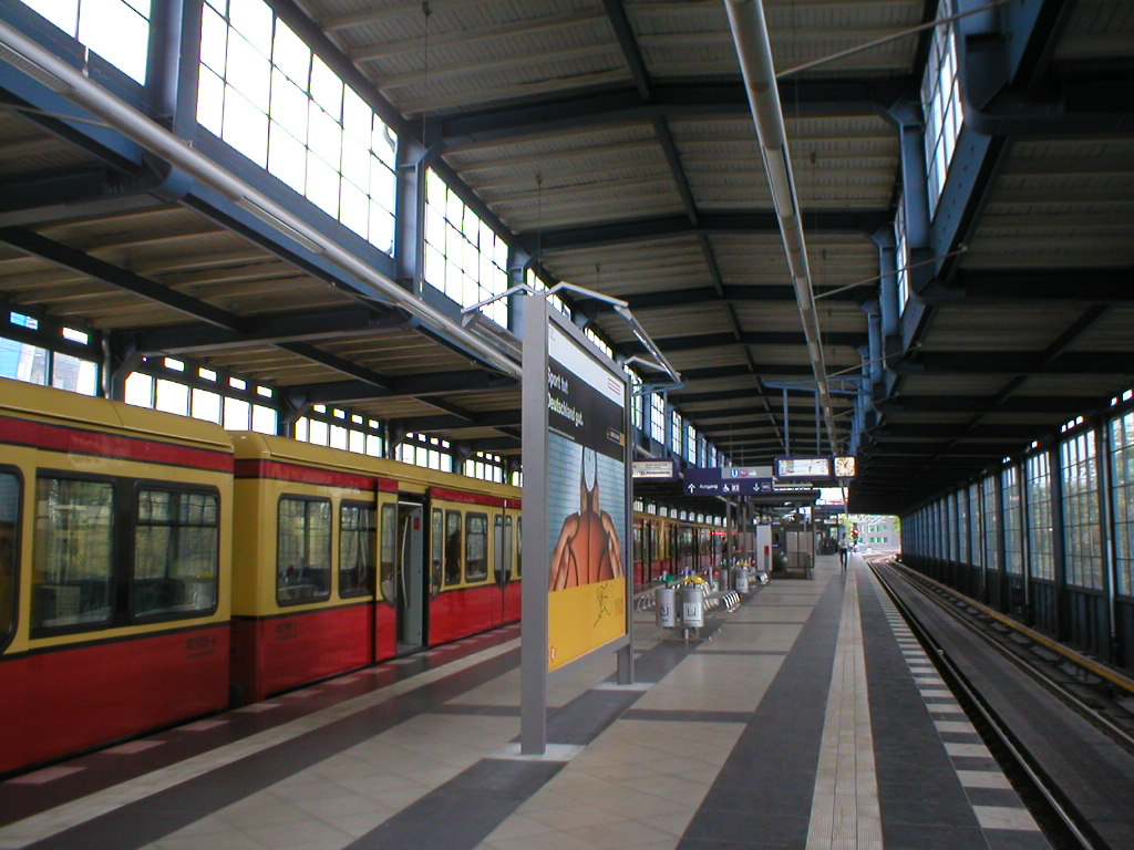 Platform of the Berlin S-Bahn station Jannowitzbrücke, Berlin, Germany